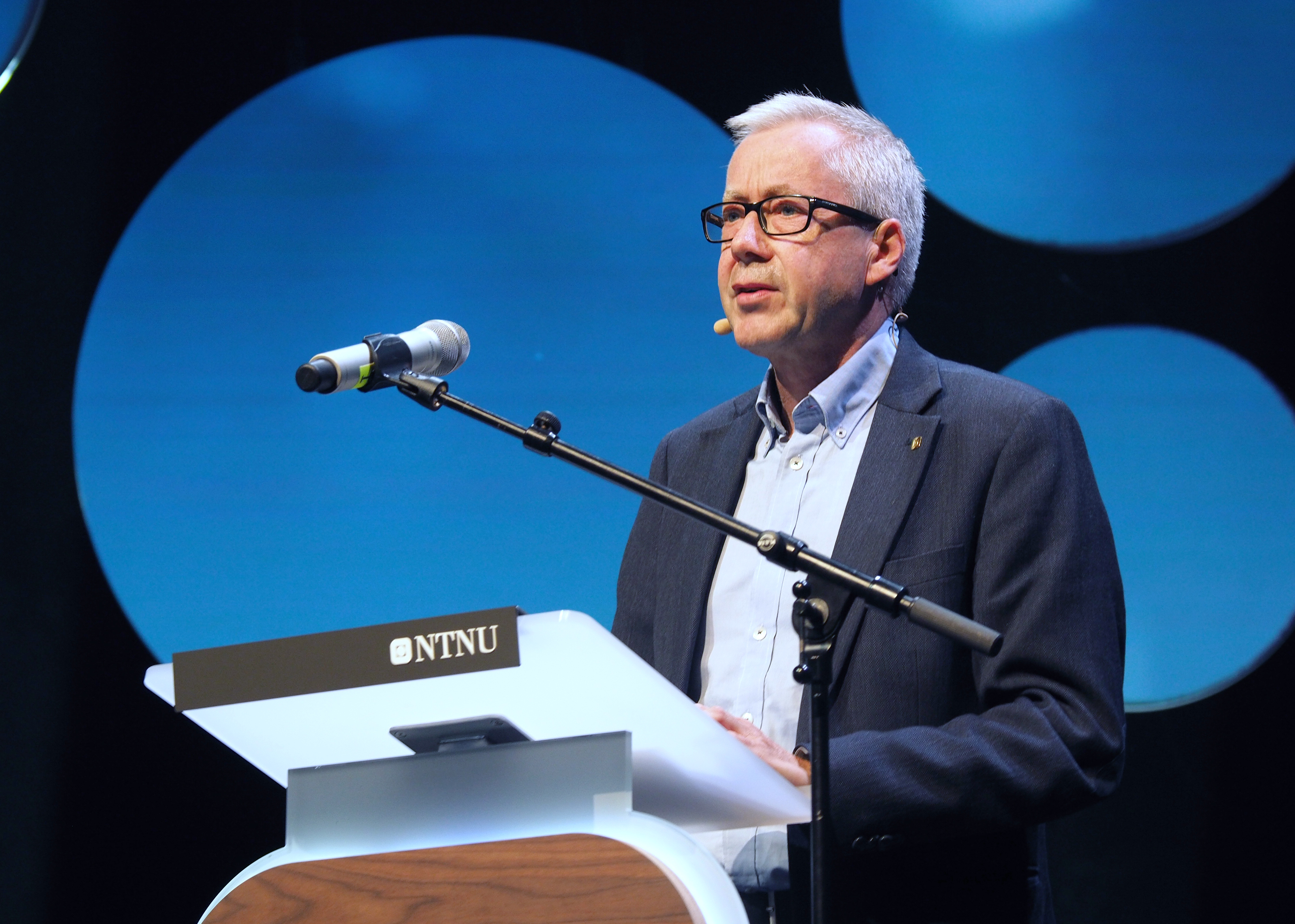 The Norwegian professor and director of The Nord-Trøndelag Health Study (the HUNT Study) Steinar Krokstad The Big Challenge Science Festival in Trondheim Olavshallen, 16 June 2019